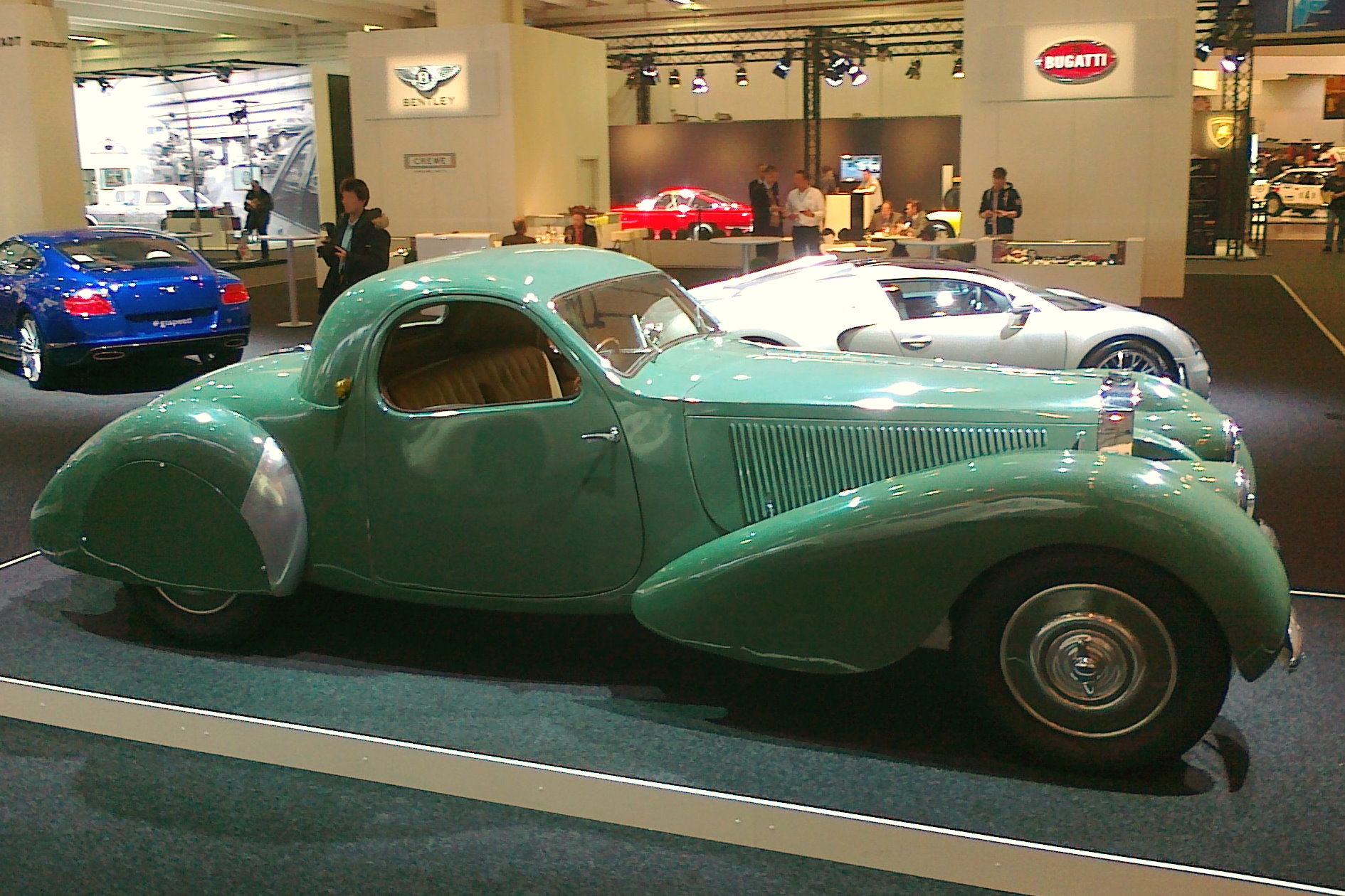 12. April 2013, TechnoClassica Essen, Germany